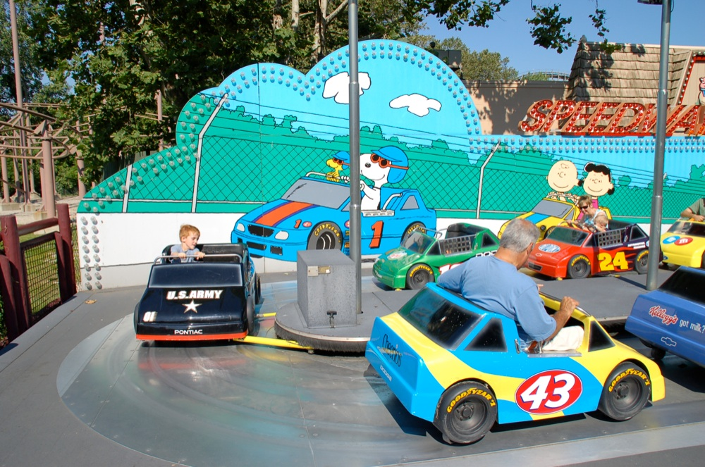 View of Peanuts 500 Speedway in Camp Snoopy at Cedar Point